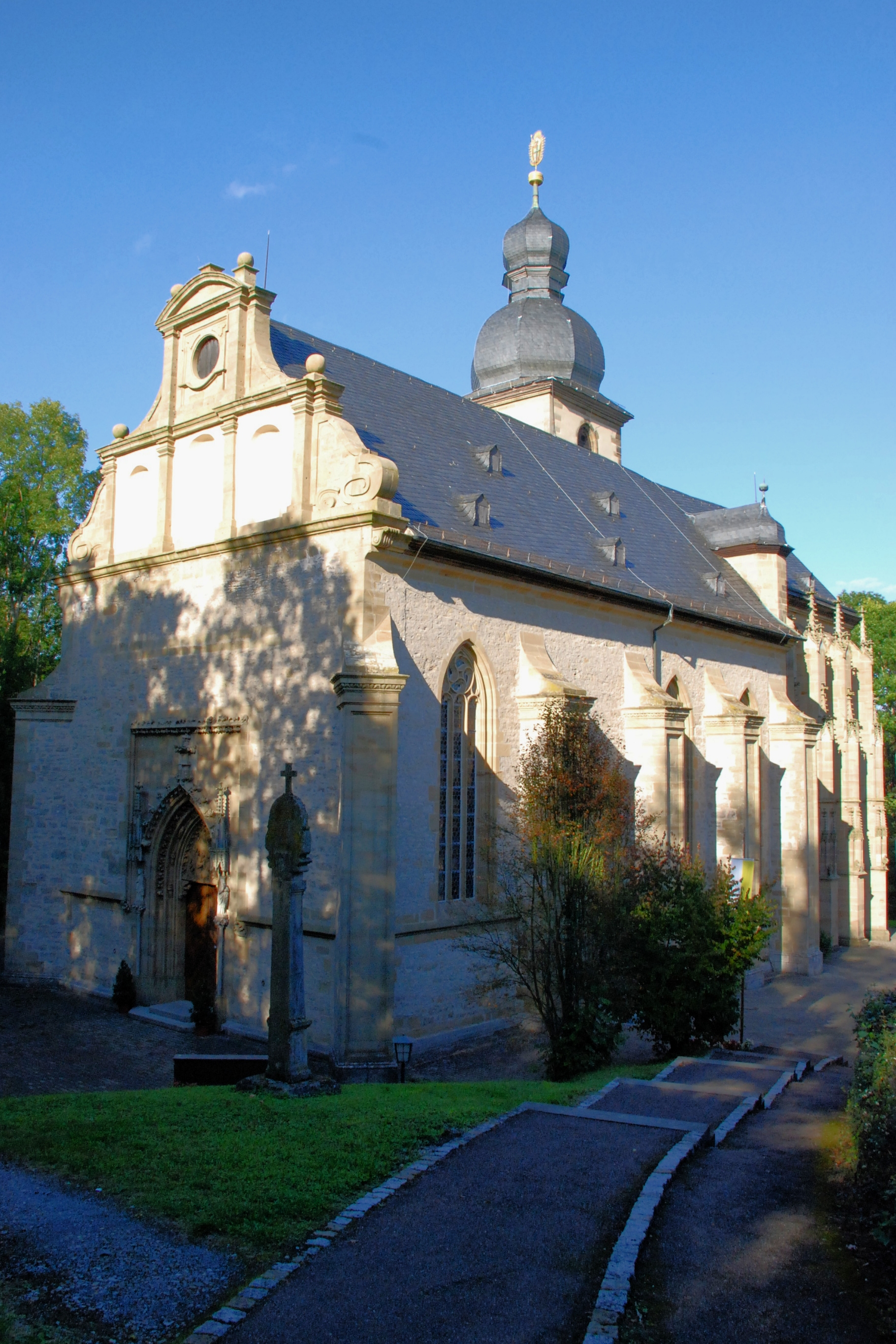 Pilgrimage church in Laudenbach (Weikersheim) Germany